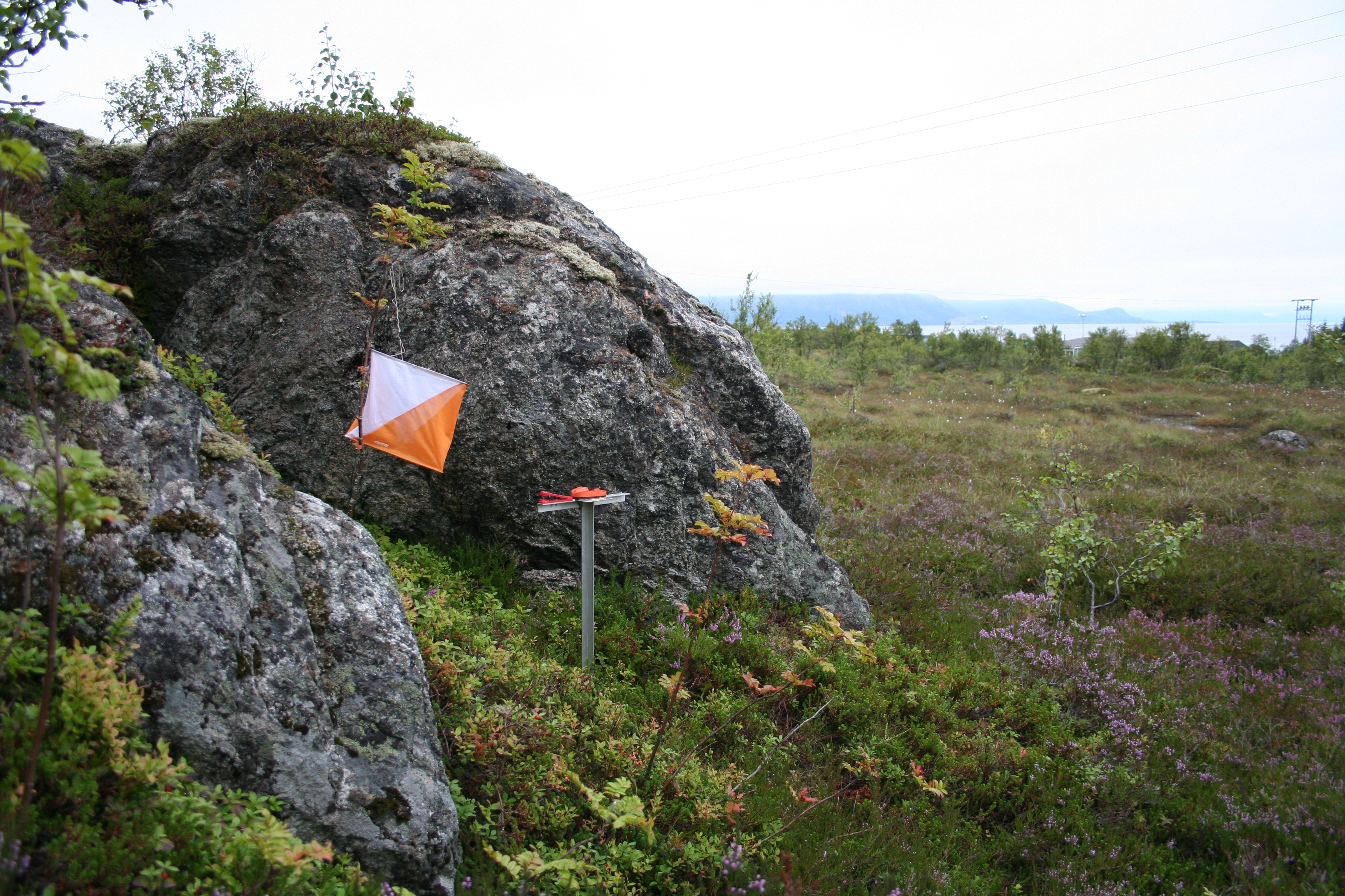 Orienteering control at Strand in Sortland, Norway